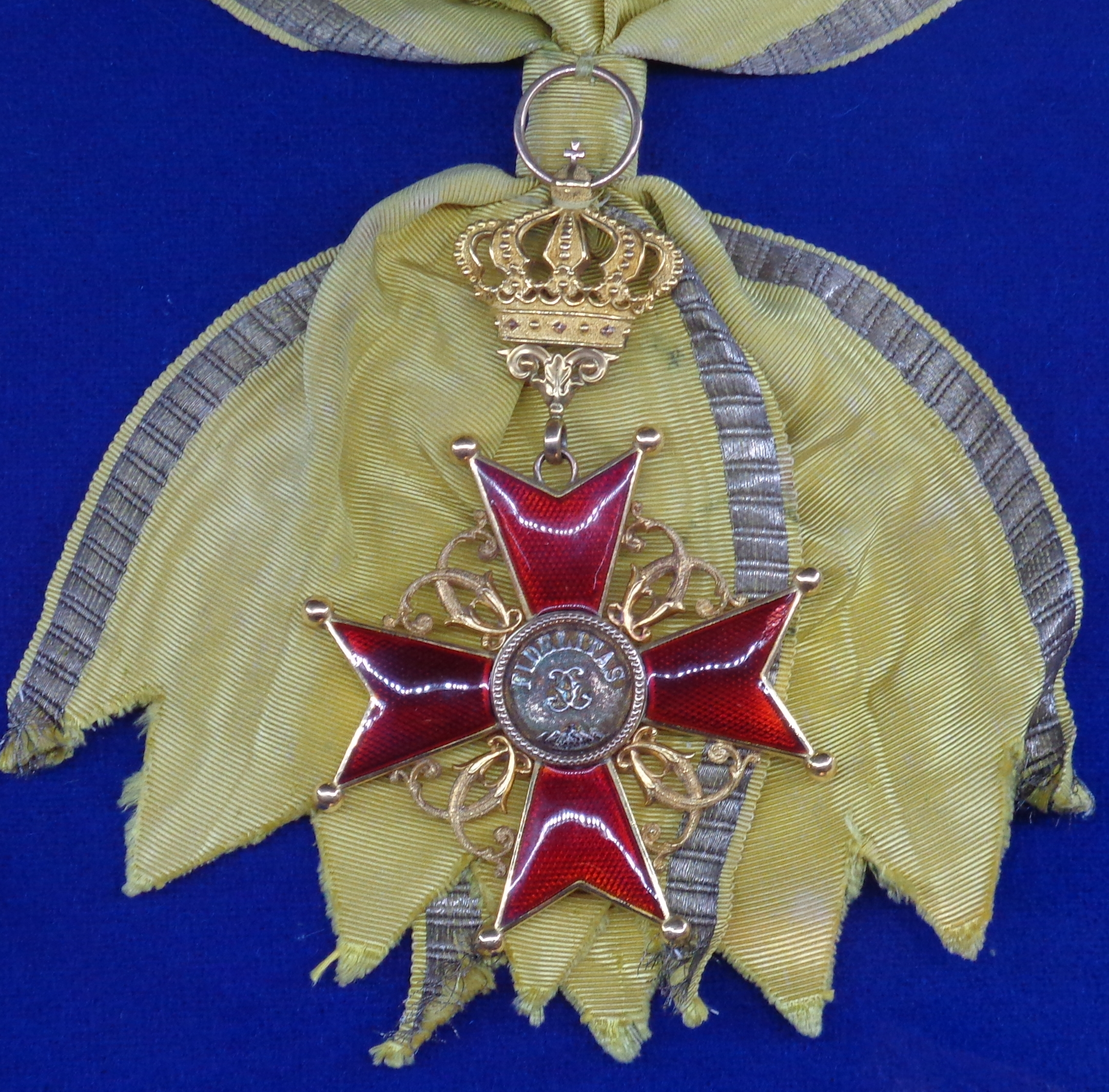 House Order of Fidelity, badge and sash of Grand Cross, 1877-1897. Grand Duchy of Baden. The exhibition of the Tallinn Museum of Orders of Knighthood, Estonia.